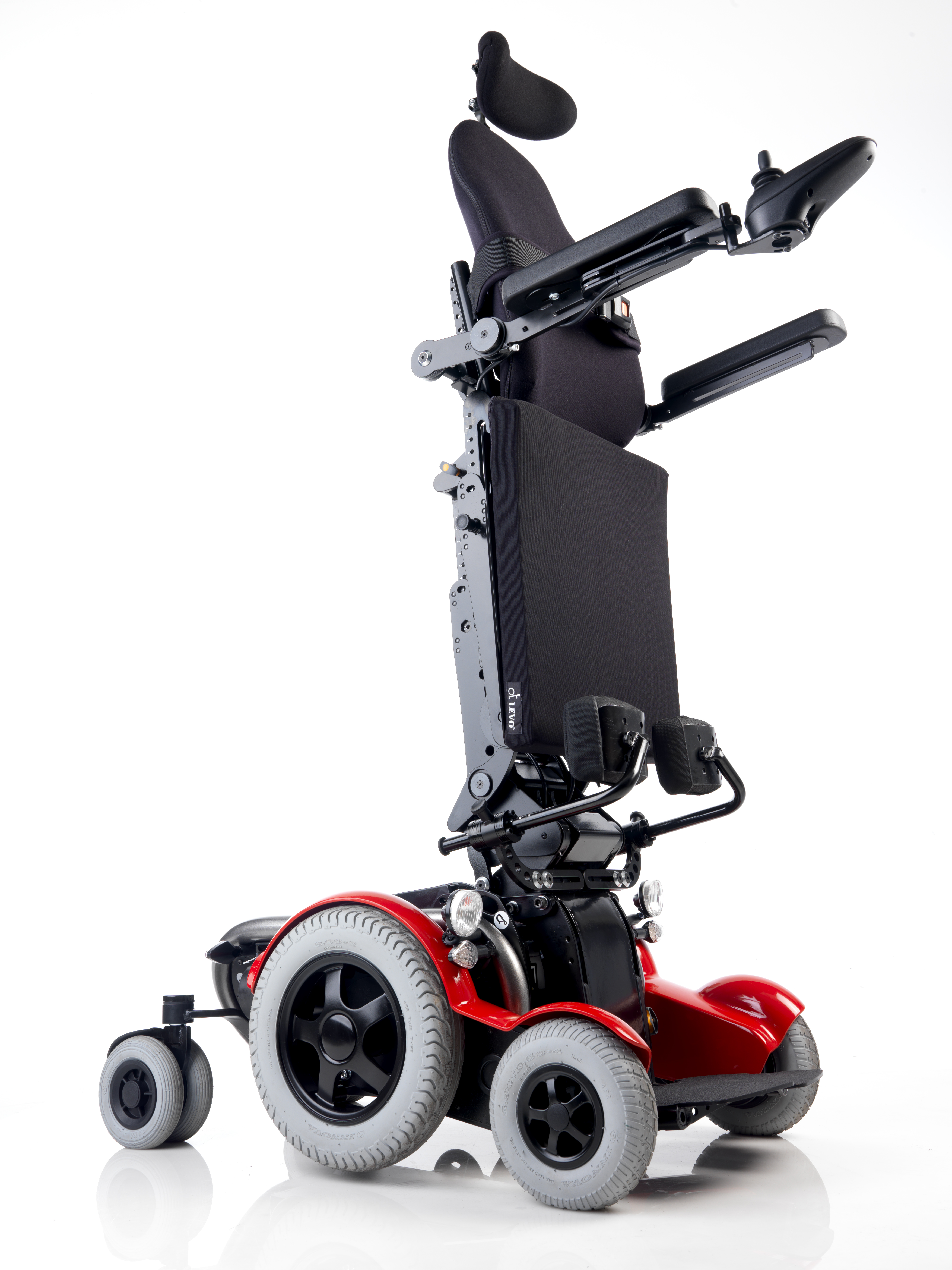 LEVO C3 the first 4WD wheelchair with standing function, 2007